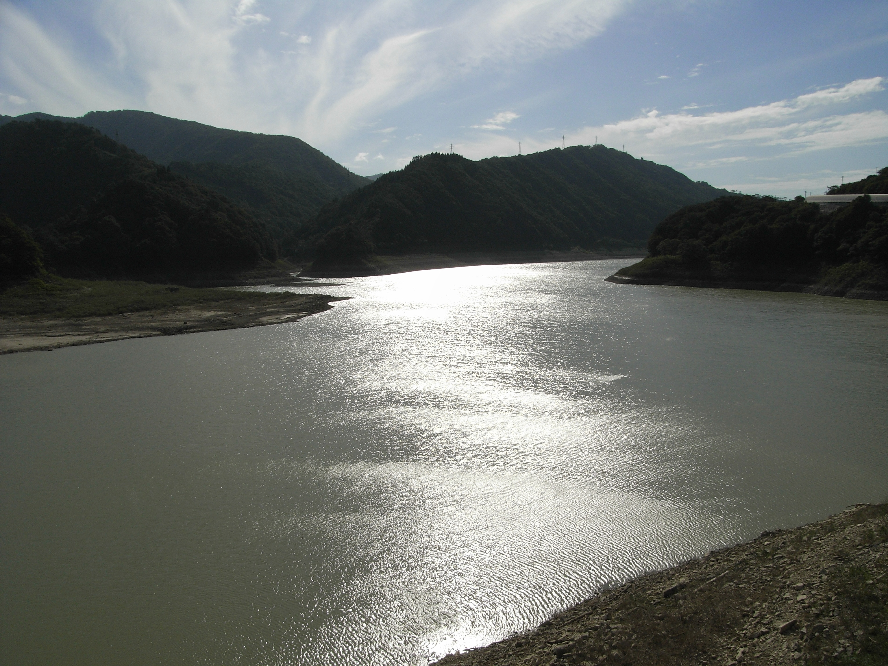 Lake Kinshuko(Iwate Pref./Japan)